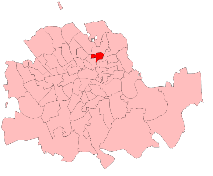 A map of Haggerston constituency within the Metropolitan Board of Works area, as it existed from 1885 to 1918.